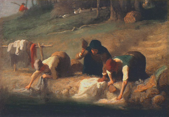 The washerwomen